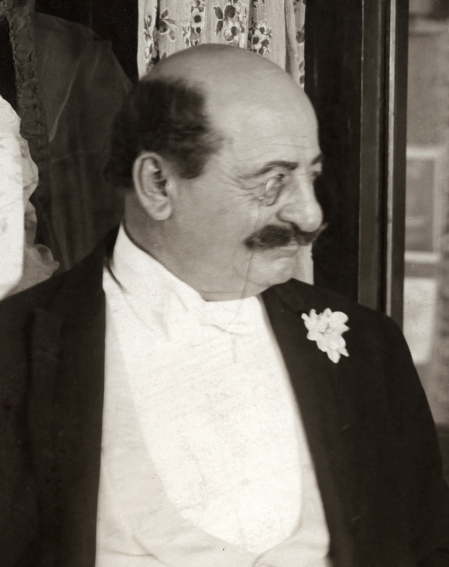 Actor Russell Bassett in a detail from a scene still for the silent drama film Behind the Scenes that starred Mary Pickford and James Kirkwood.